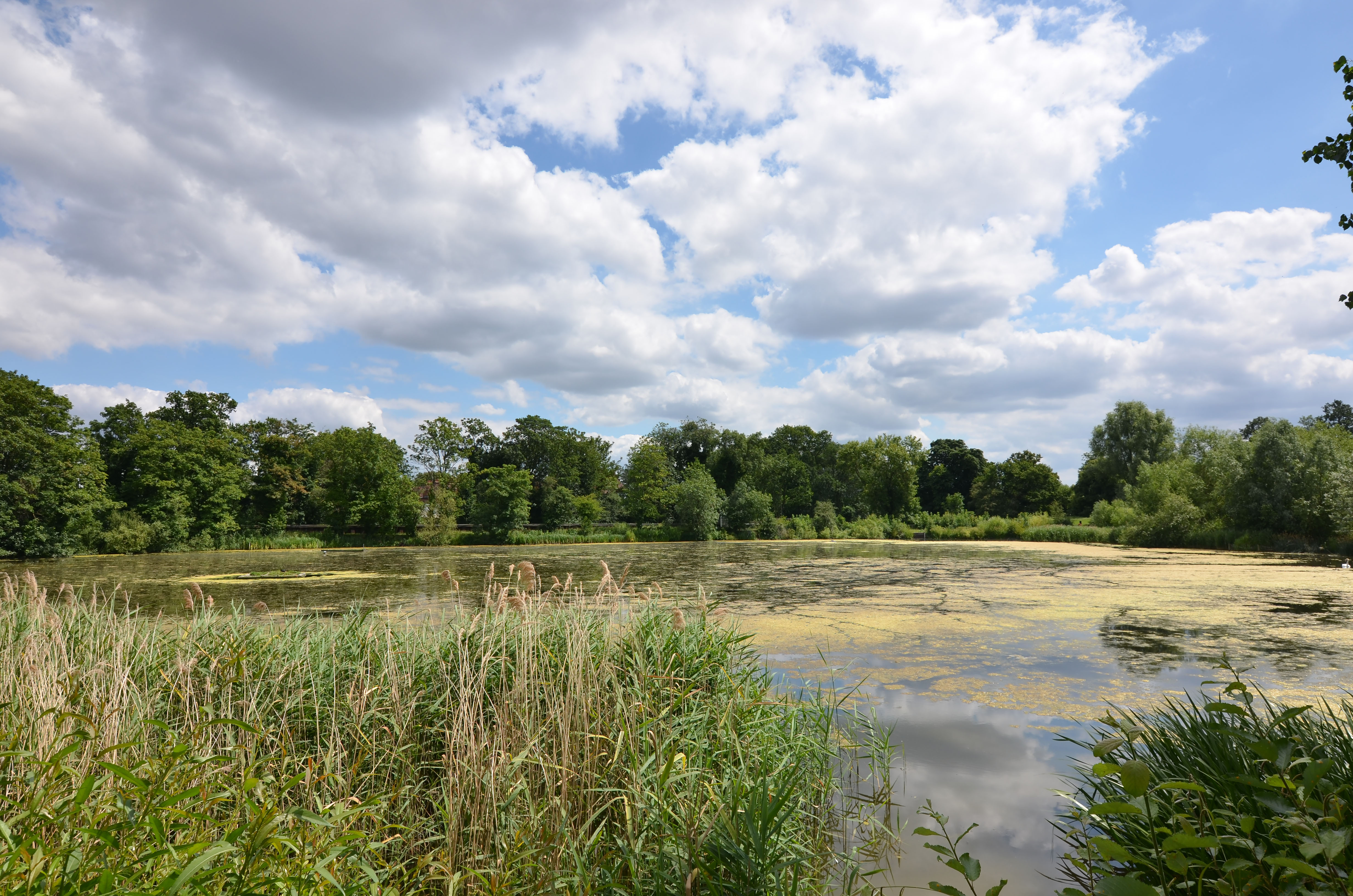 A photograph of Highgate pond#1 on London's Hampstead Heath